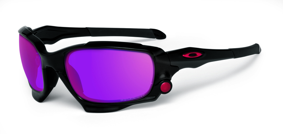 Photo of Oakley sunglasses